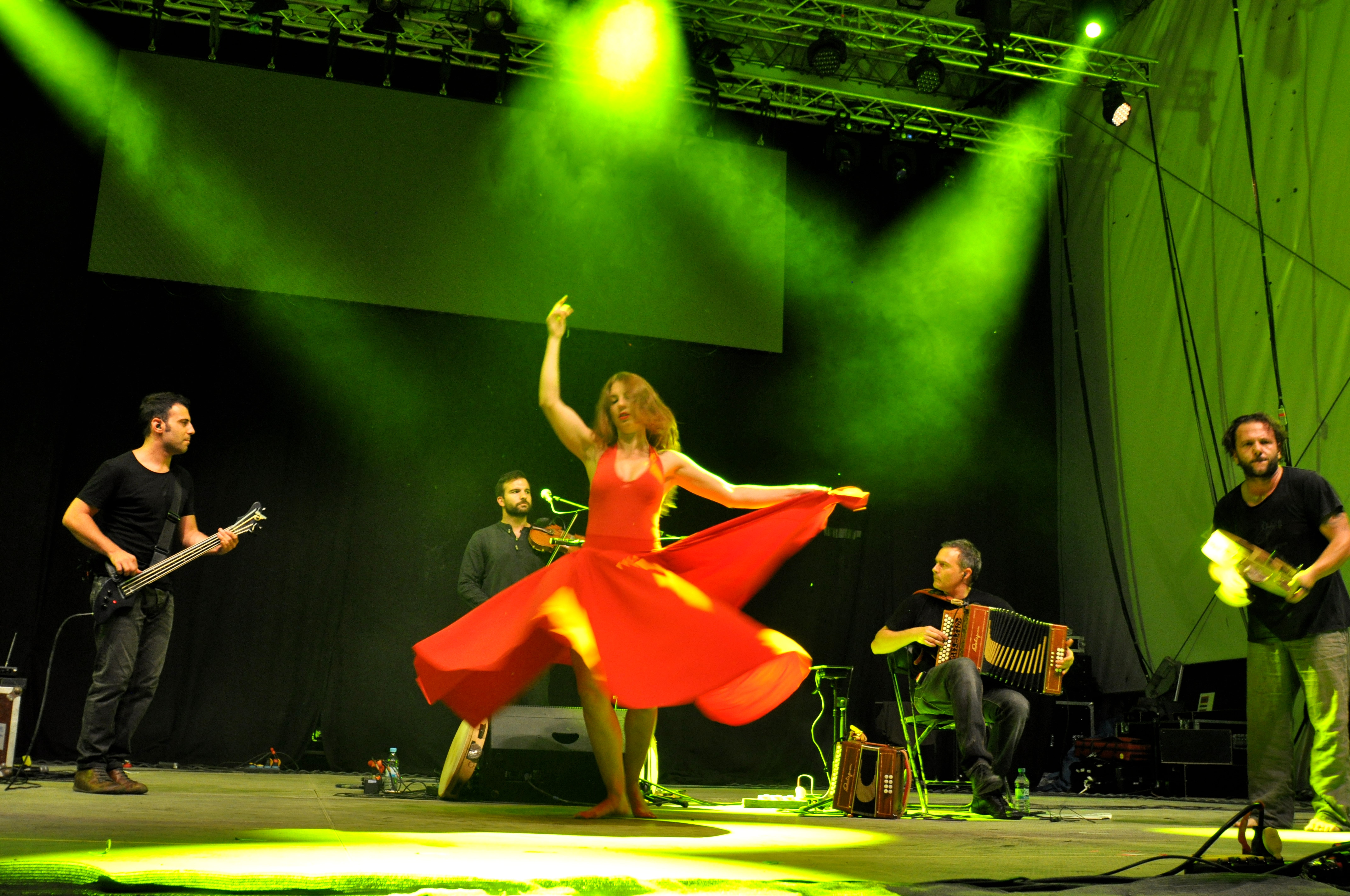 Canzoniere Grecanico Salentino (ITA), World Music Festival Horizonte 2015, Fortress Ehrenbreitstein, Koblenz, Rhineland-Palatinate, Germany Festivalsommer This photo was created with the support of donations to Wikimedia Deutschland in the context of the CPB project "Festival Summer".